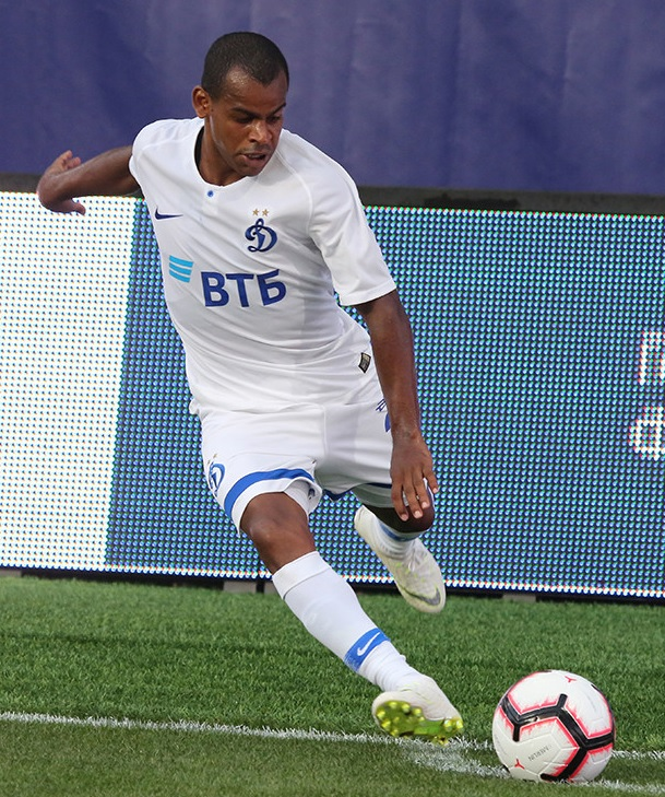 Joãozinho with FC Dynamo Moscow in a game against FC Rubin Kazan.